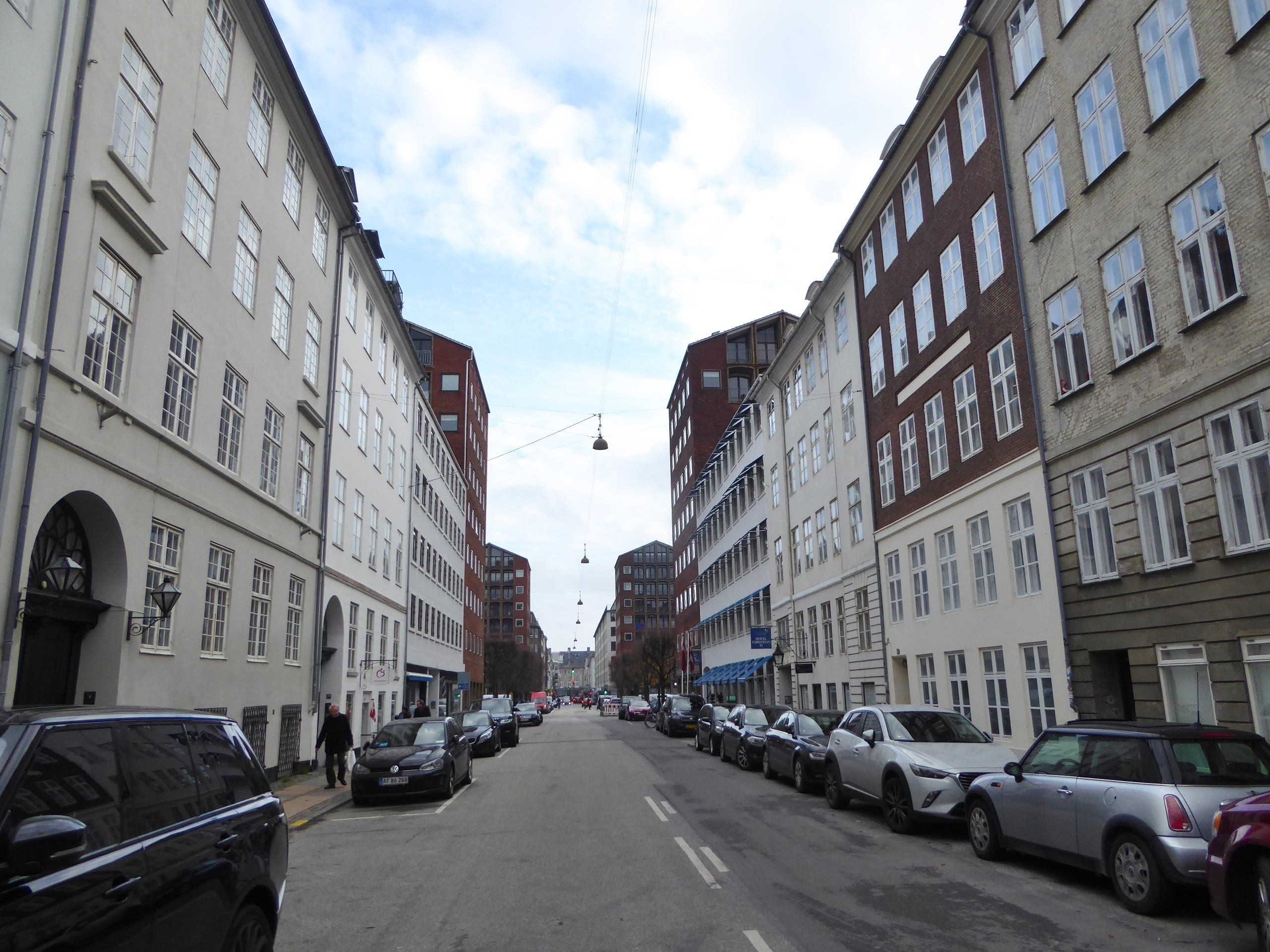 The street Dronningens Tværgade in Indre By in Copenhagen.